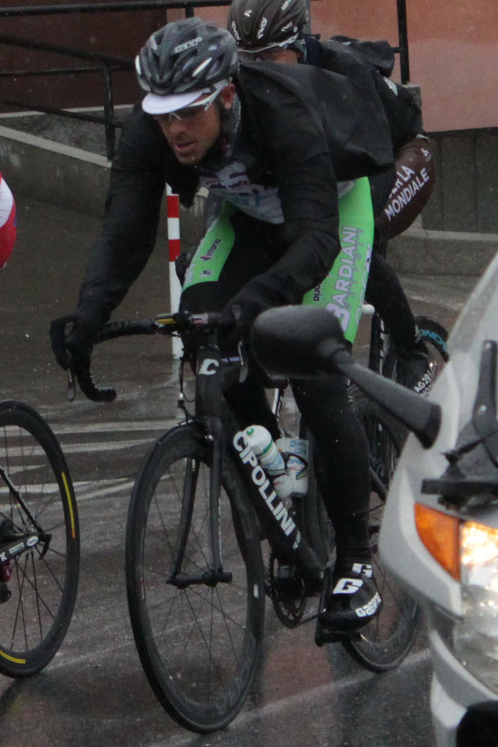 Filippo Fortin, Milan-Sanremo 2013, Savona